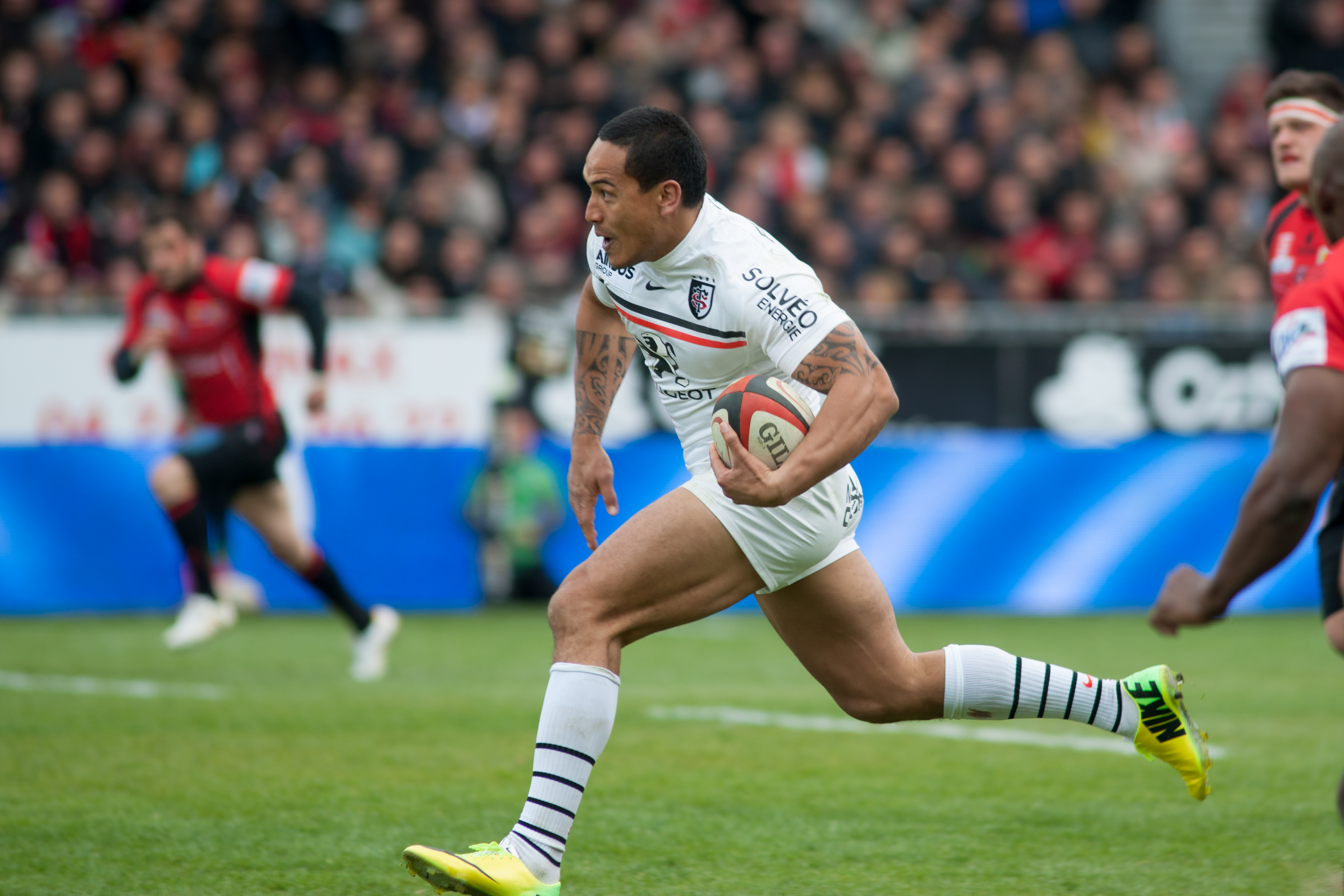 The making of this document was supported by Wikimedia CH.(Submit your project!) For all the files concerned, please see the category Supported by Wikimedia CH. US Oyonnax vs. Stade Toulousain, 19th April 2014